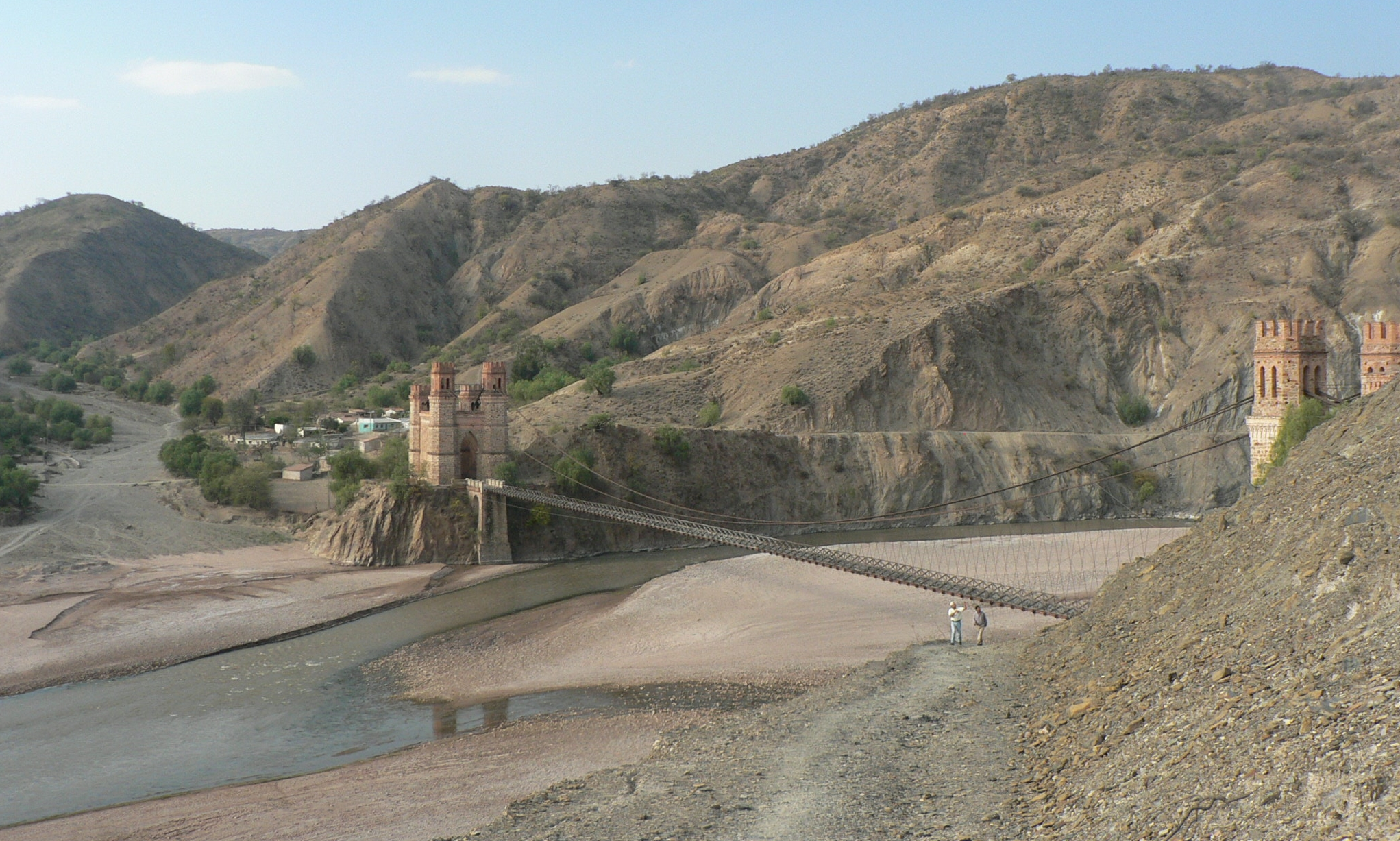 The bridge "Puente Méndez" or "Puente Sucre" between Sucre and Potosí crossing the Río Pilcomayo in Bolivia.